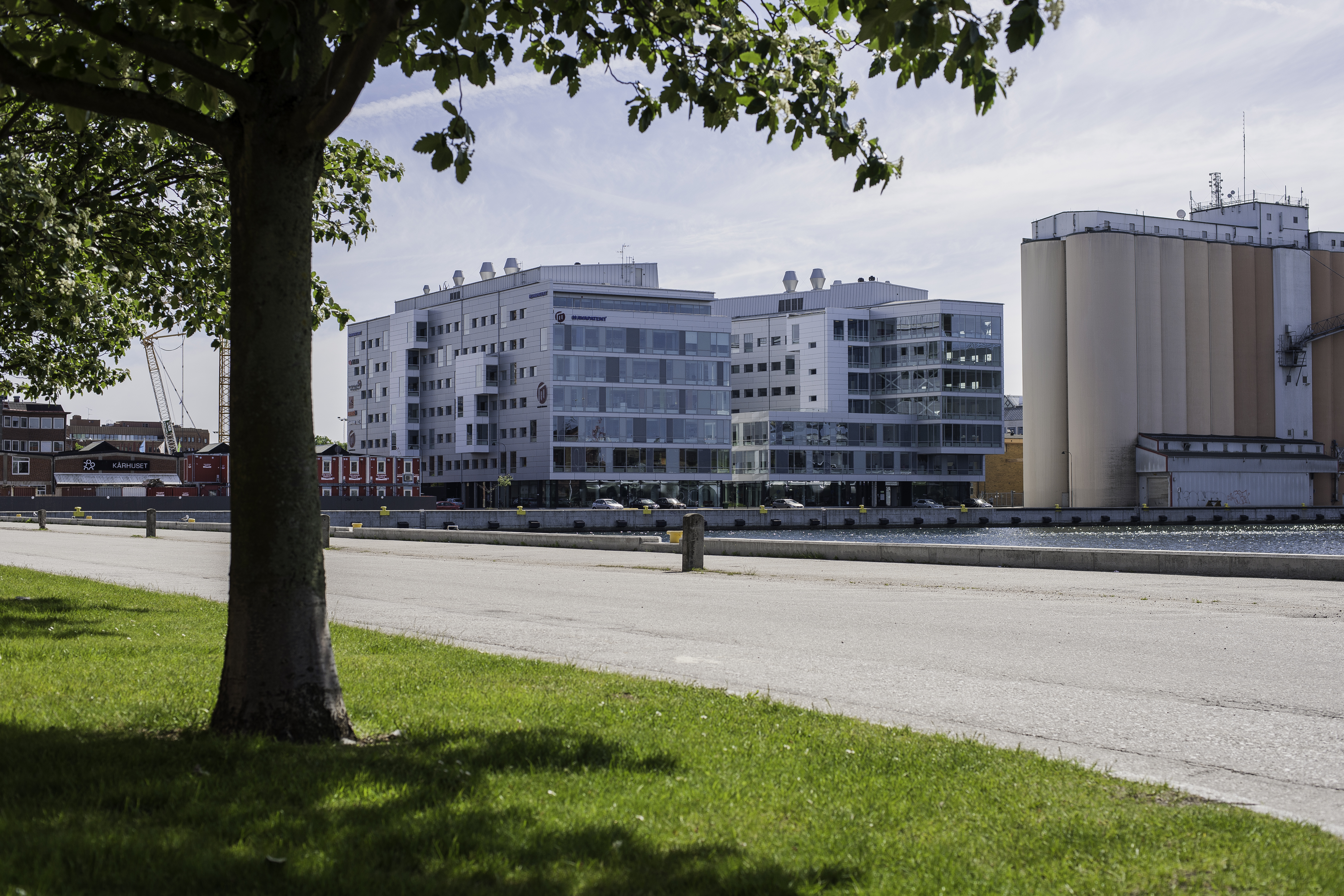 Awapatent's HQ, Matrosgatan 1, Malmö, Sverige